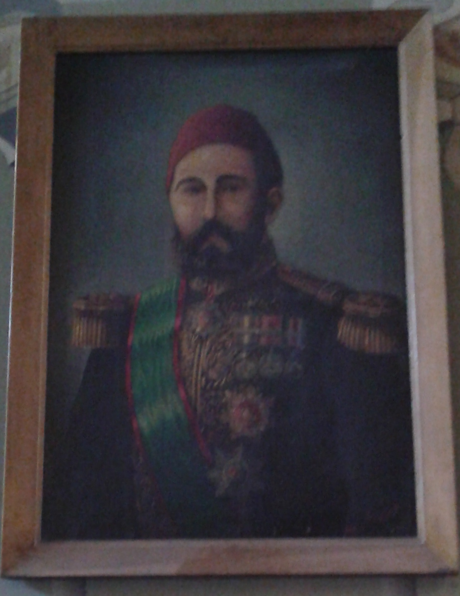 صورة ملونة بالحجم الكبير للفريق سليم فتحي باشا معروضة بالمتحف الحربي القومي بالقلعة - القاهرة